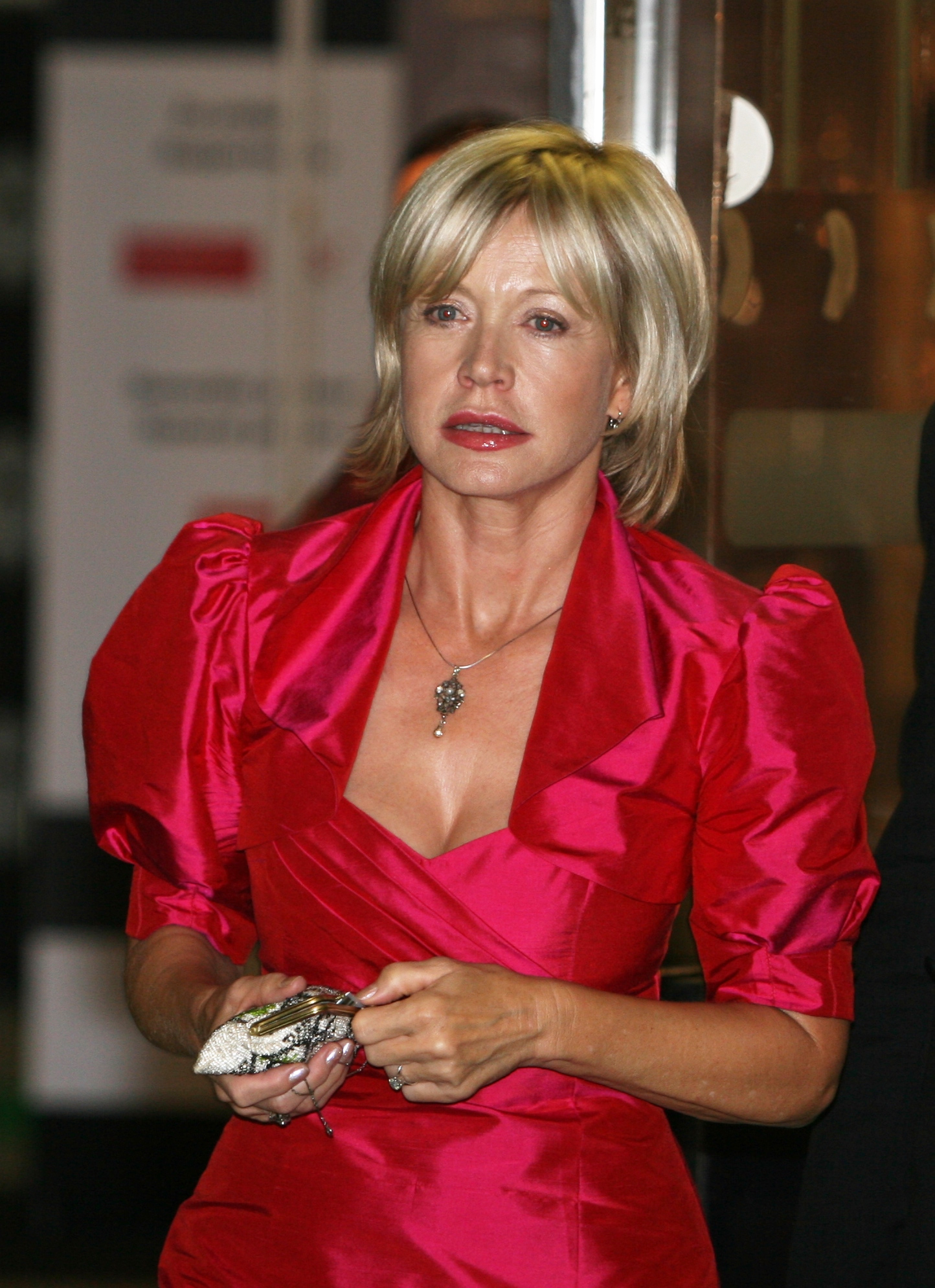 Czech actress Jana Švandová on Karlovy Vary International Film Festival 2008